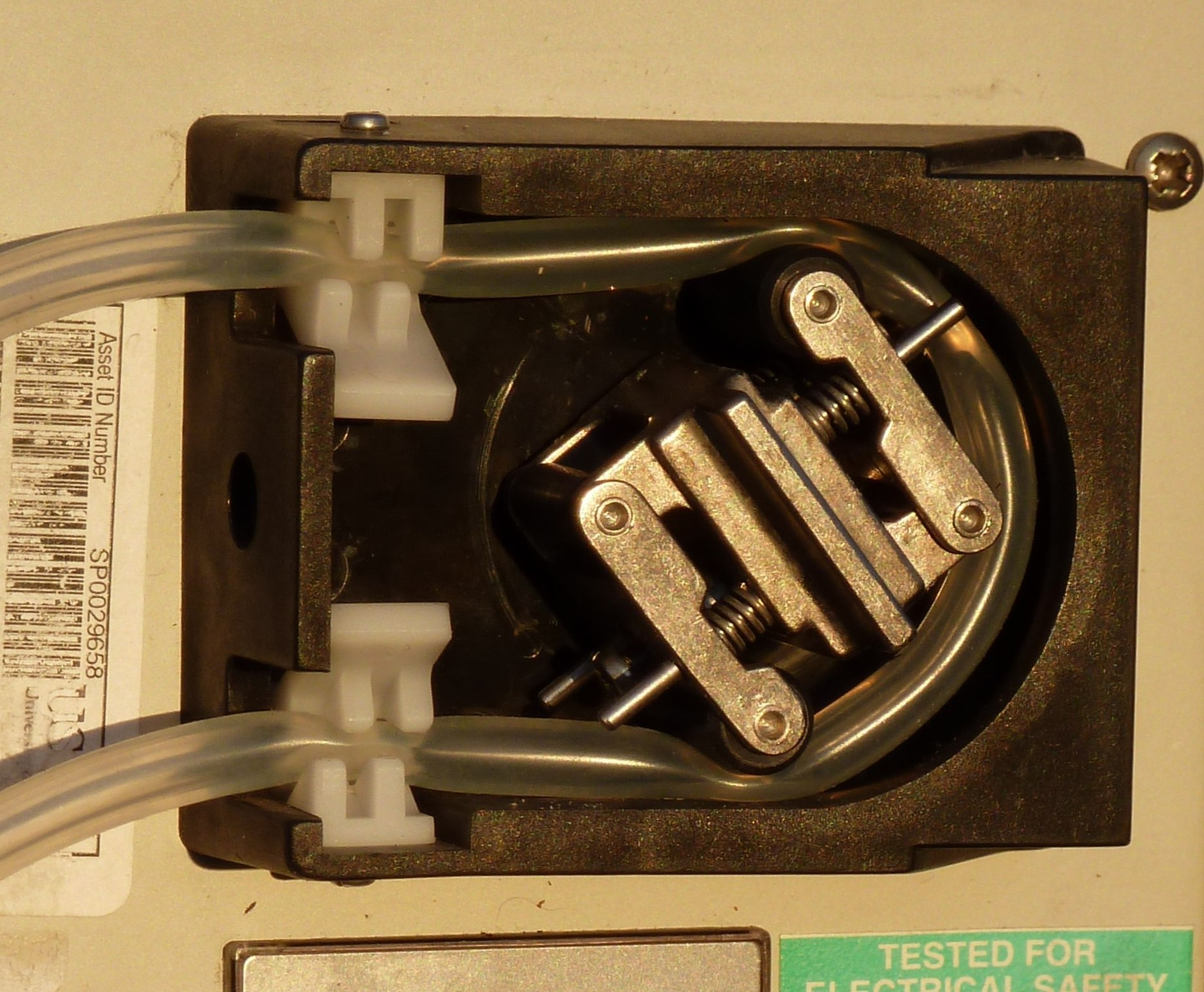 Head of a peristaltic pump